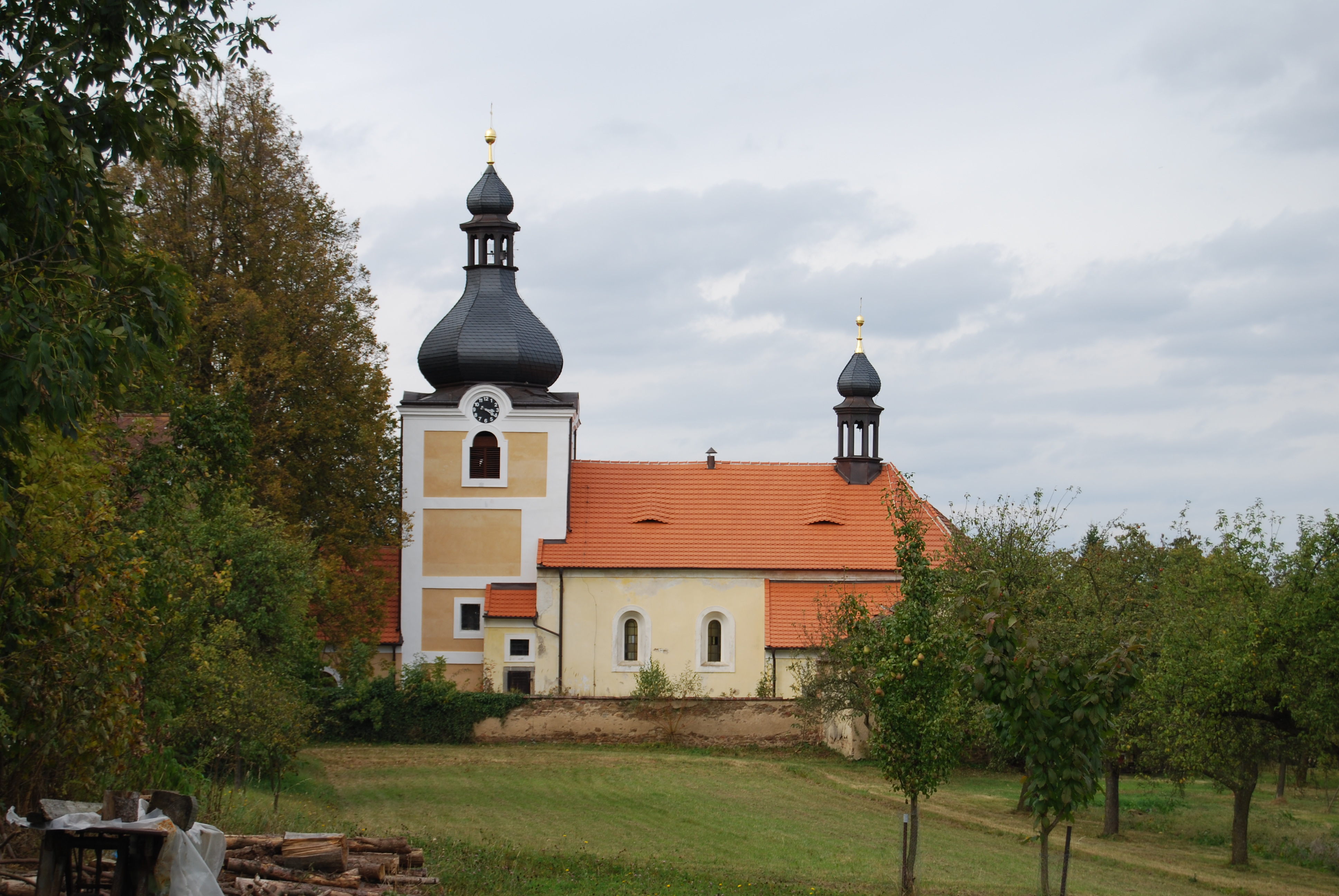 Budislavice, part of Mladý Smolivec village in Plzeň-jih District. Czech Republic. Church of Saint "Jiljí"